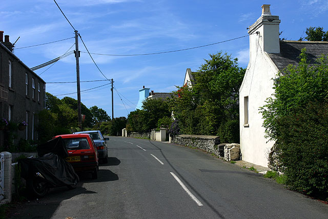 Dalby.